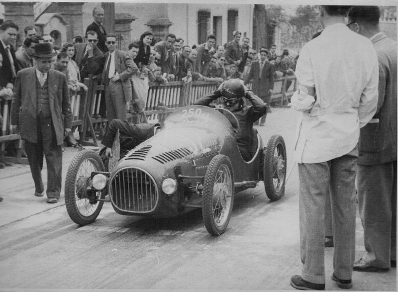 Josep "Papitu" Rabasa (the brother of Simeó Rabasa, owner of Derbi) on his Derbi Centauro 250cc (in the 50's). This car was built by Jaume Pahissa.